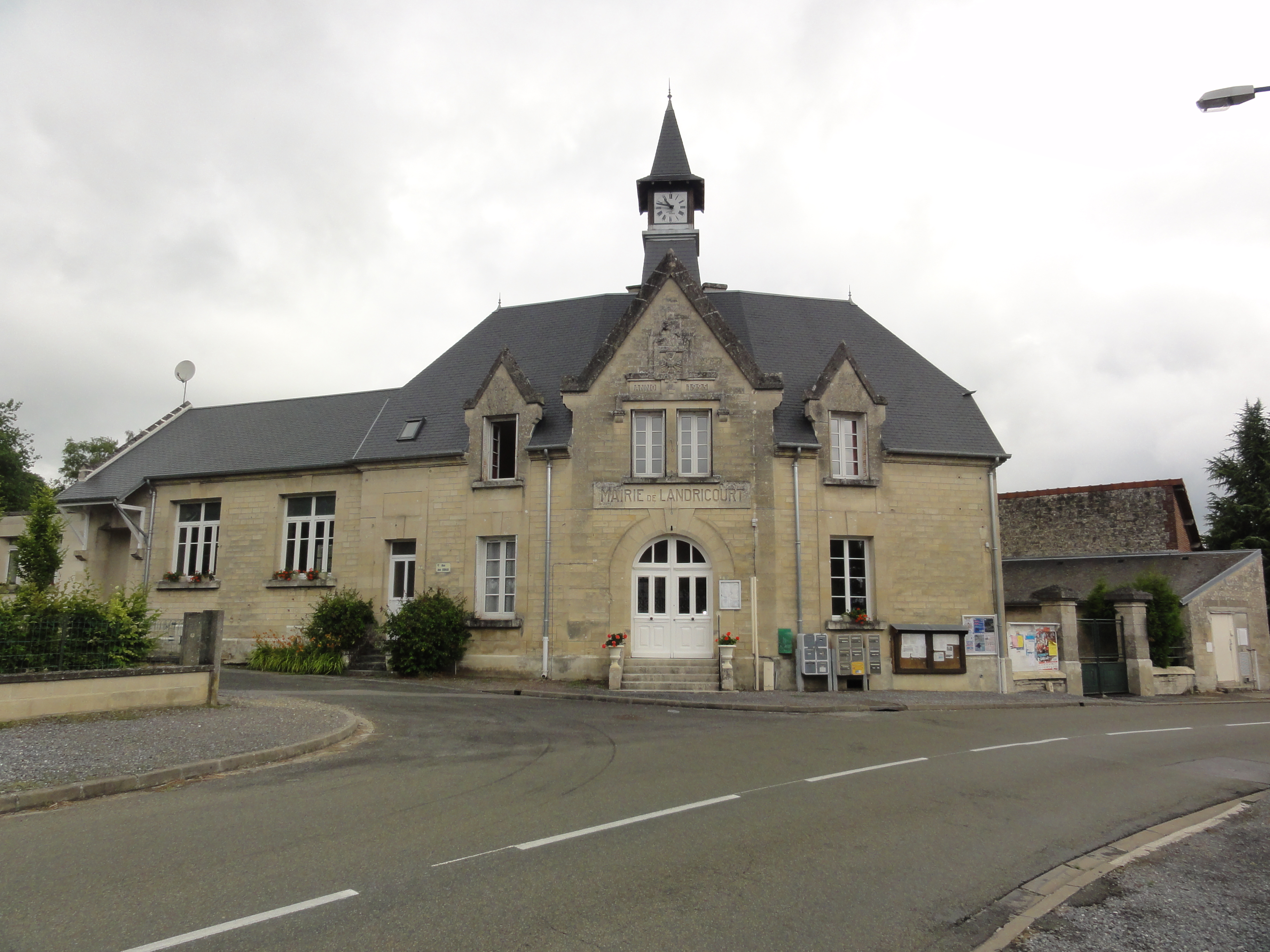 Landricourt (Aisne) mairie